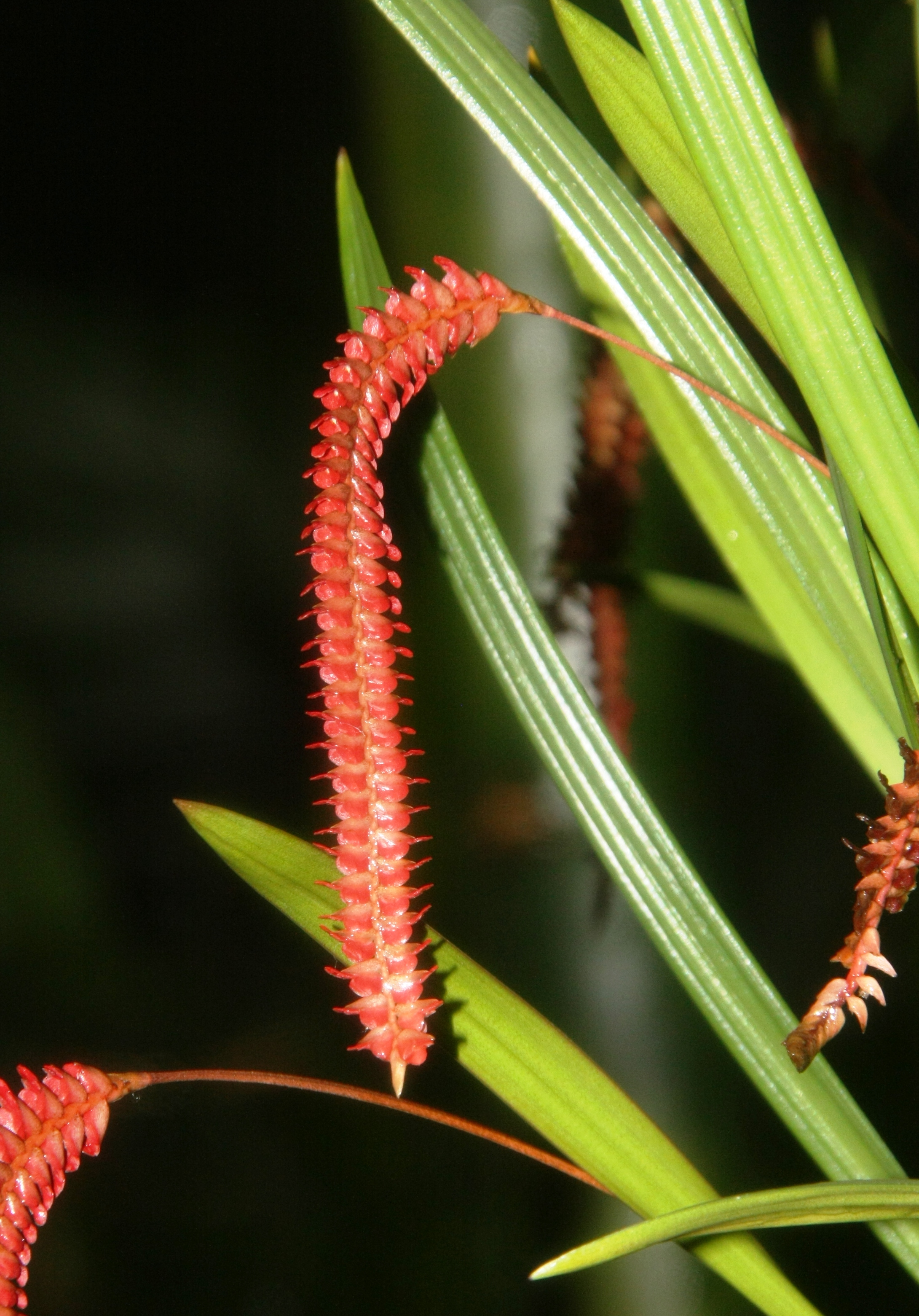 This photograph was taken on 15th December during an event in Fata Morgana Greenhouse, supported by Czech 'Mediagrant'.